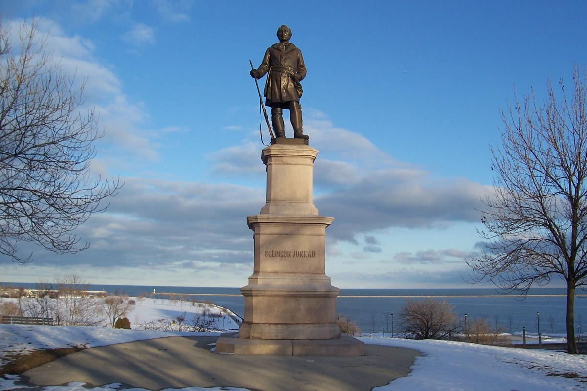 Memorial statue of city founder Solomon Juneau, located on the grounds of Juneau Park in Milwaukee, Wisconsin. This statue, located in Juneau Park, was the gift of shoe manufacturers Charles T. Bradley and William H. Metcalf. Juneau's granddaughter Hattie White unveiled the statue on July 6, 1887. Artist Richard Henry Park created the sculpture.